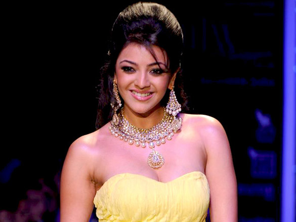 Kajal Aggarwal walks the ramp for CVM Exports at IIJW 2011